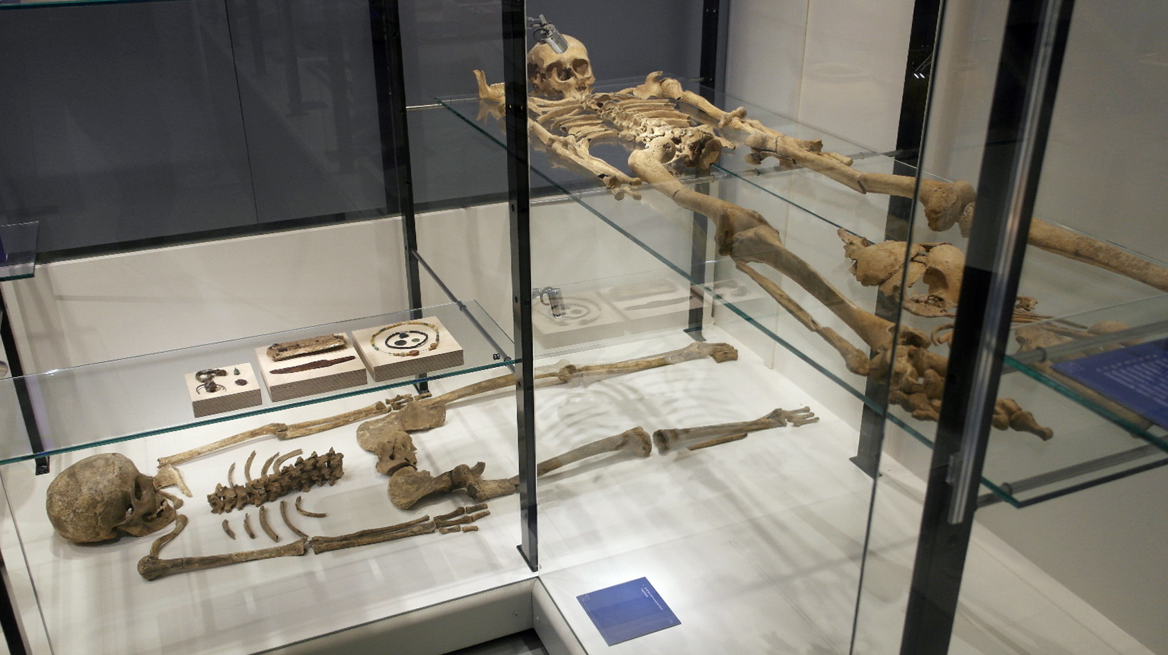 Two skeletons of a woman and a child from early Medieval graves, found near the Basilica of Saint Servatius in Maastricht, now in the archaeological collections of the Limburgs Museum in Venlo, the Netherlands.